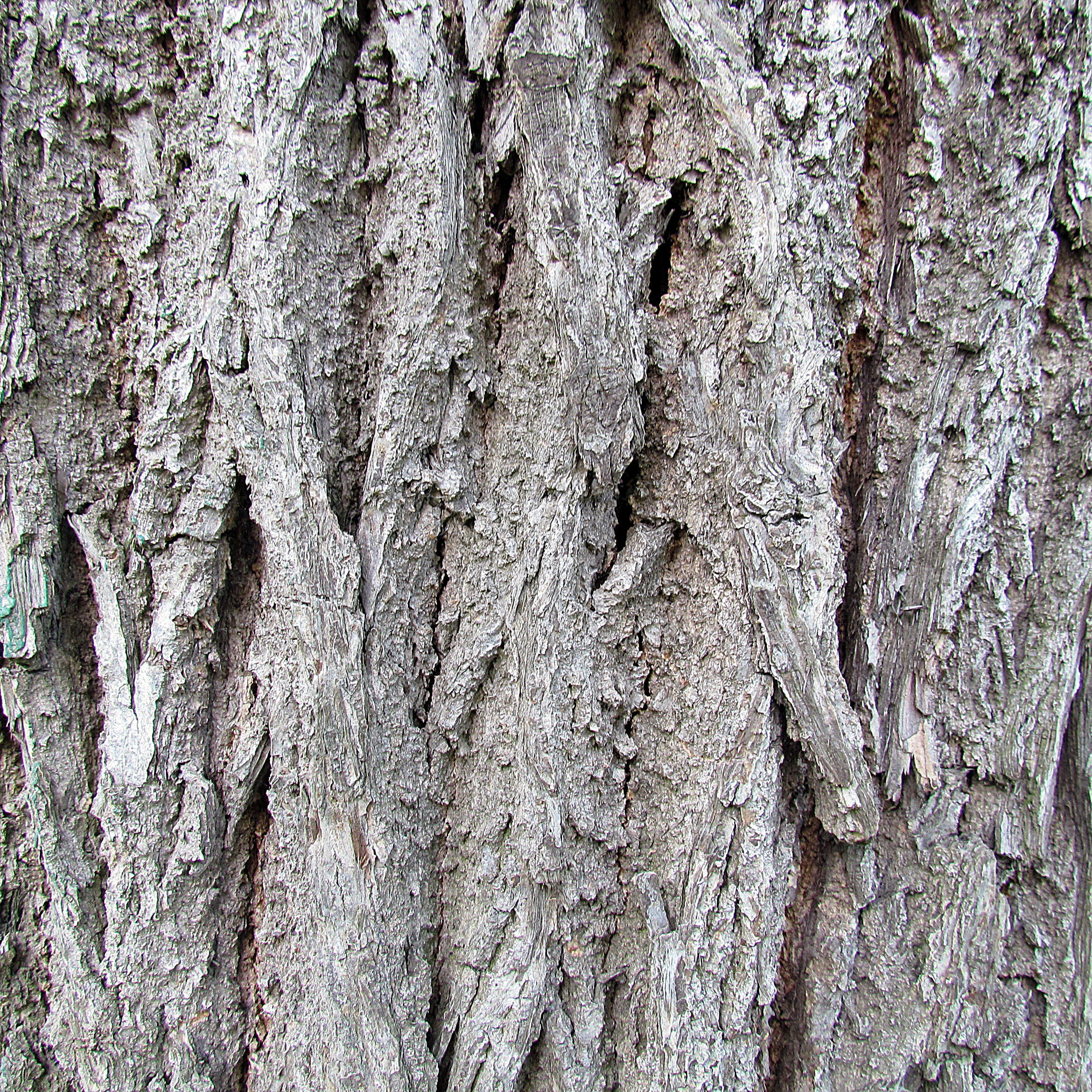 Juglans nigra bark